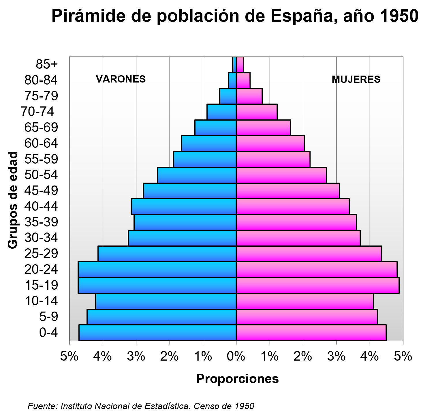 Population pyramid of Spain in 1950